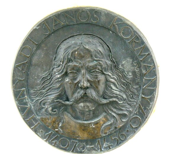 János Hunyadi